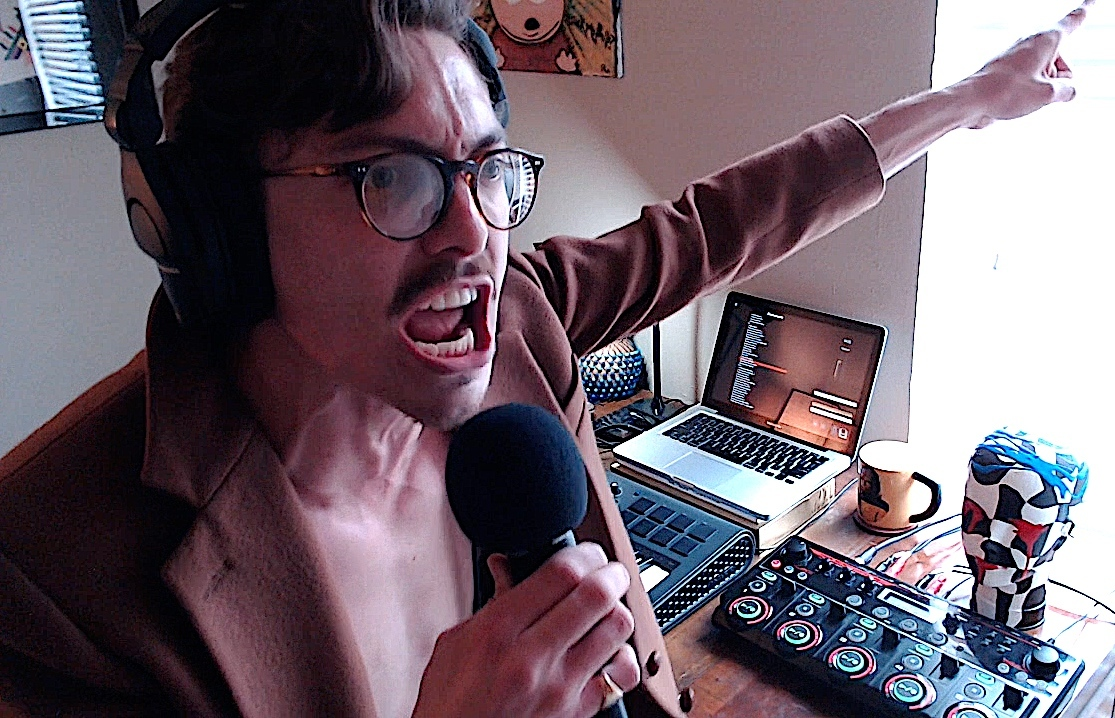 Marc performing Blackbeard in his Dallas apartment.